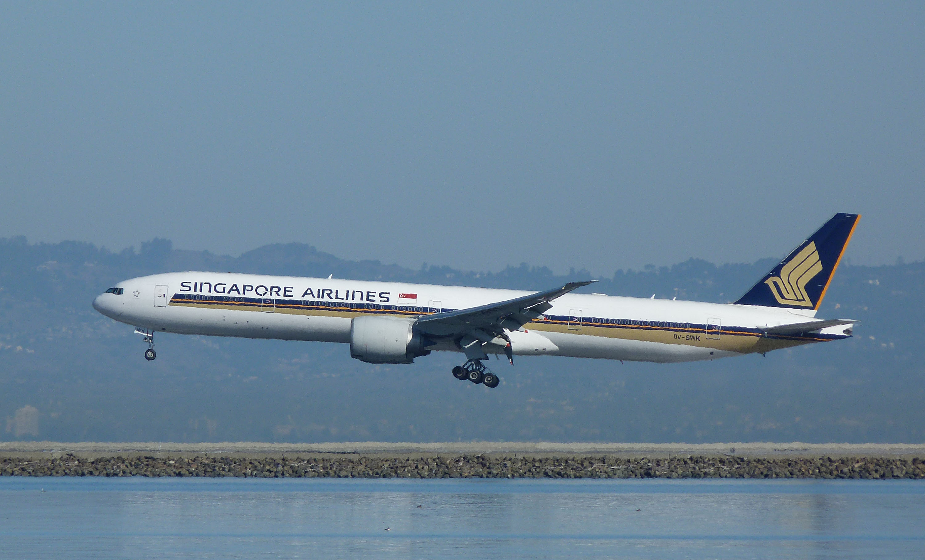 Boeing 777 of Singapore Airlines landing at San Francisco Airport